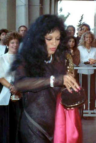 Diana Ross at the 62nd Academy Awards